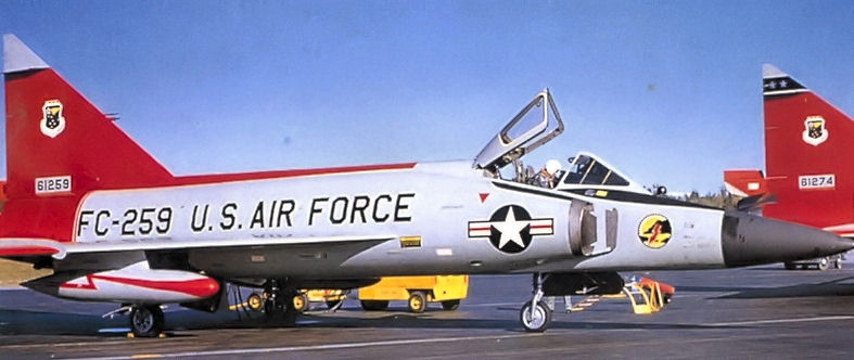 317th Fighter-Interceptor Squadron - Convair F-102A-70-CO Delta Dagger - 56-1259